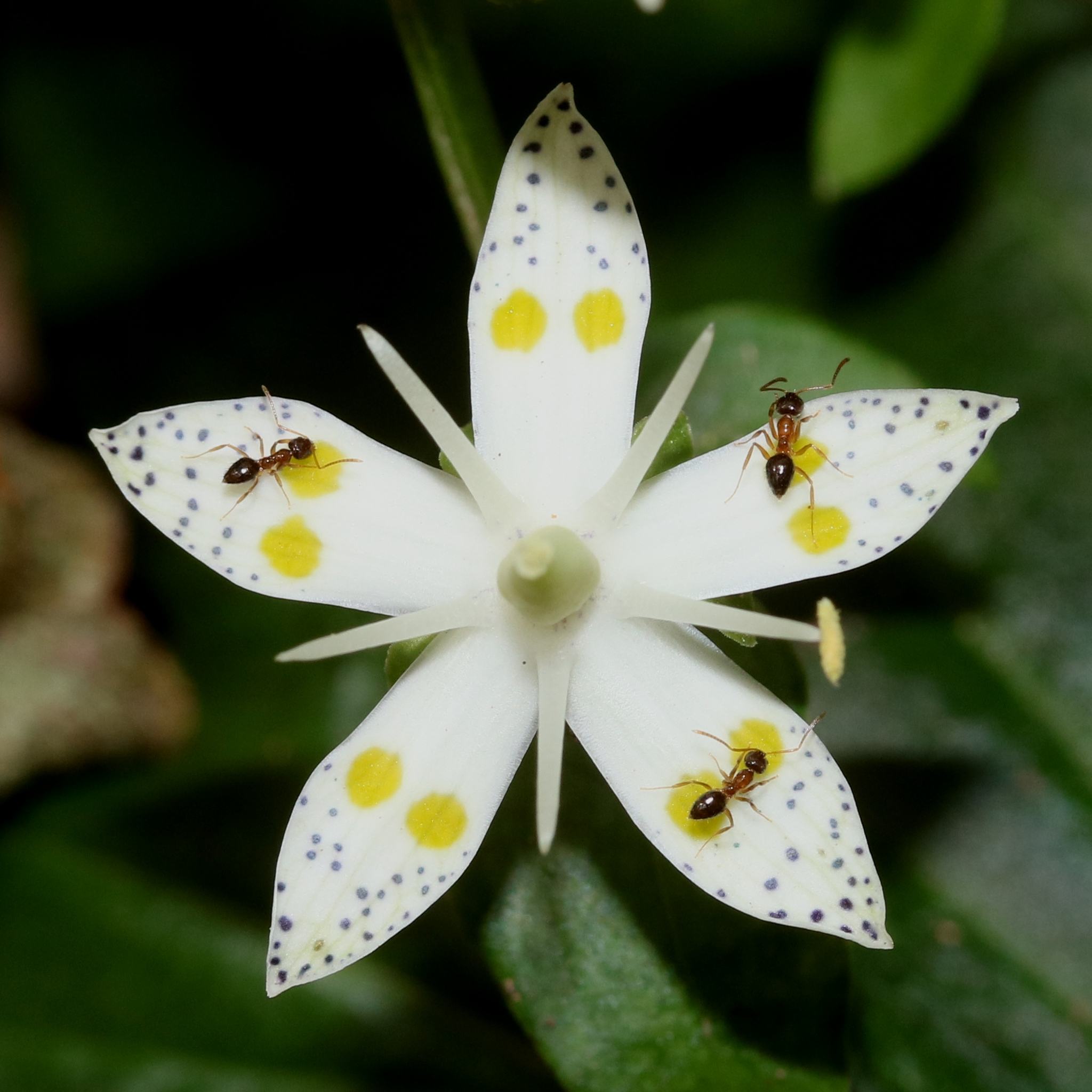 Paratrechina flavipes feeding nectar of Swertia bimaculata in Mount Ryozen, Suzuka Mountains, Taga, Shiga Prefecture, Japan.